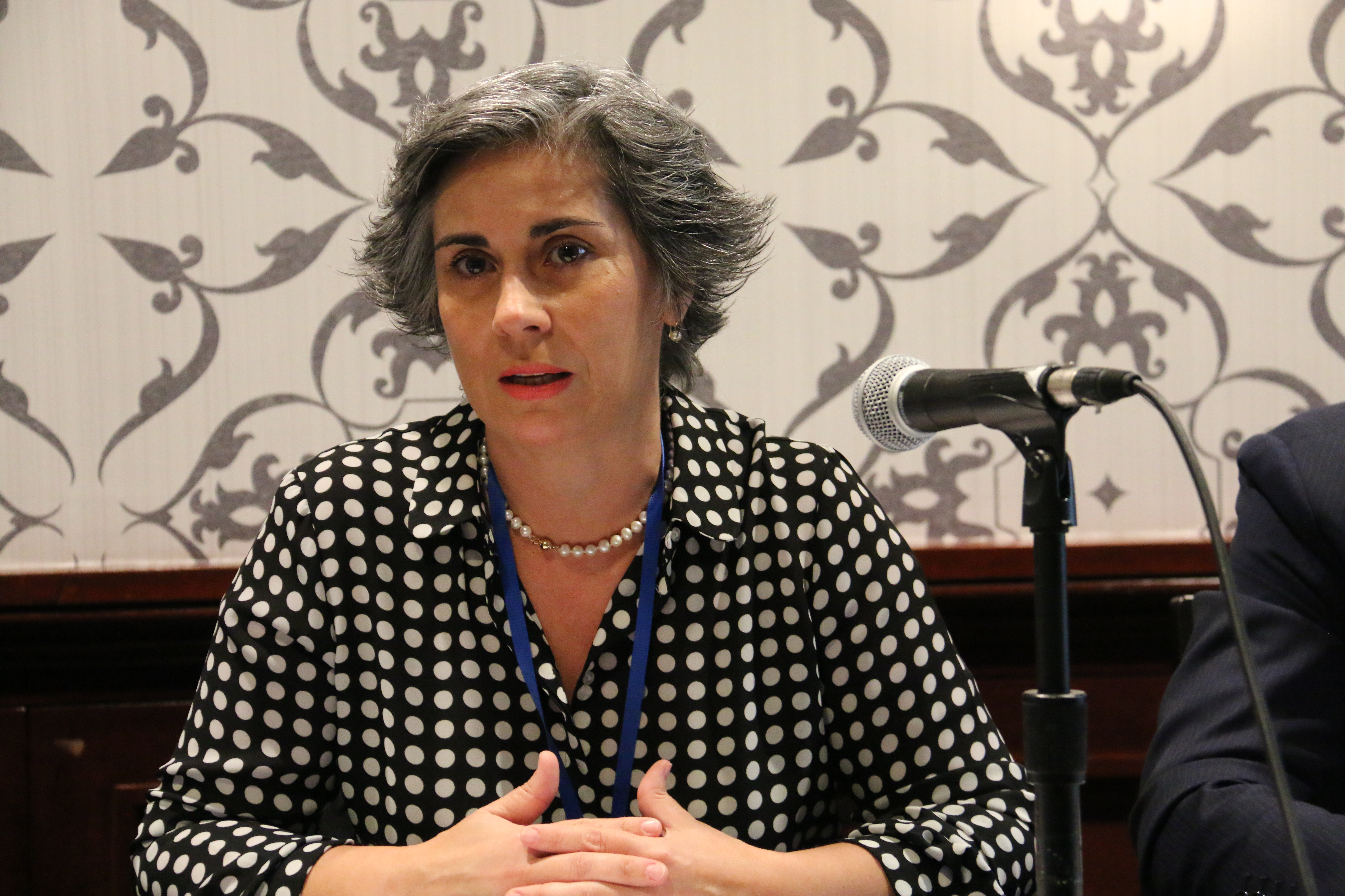 Head of OSCE PA delegation Isabel Santos opens the briefing programme in Washington, 3 November 2018